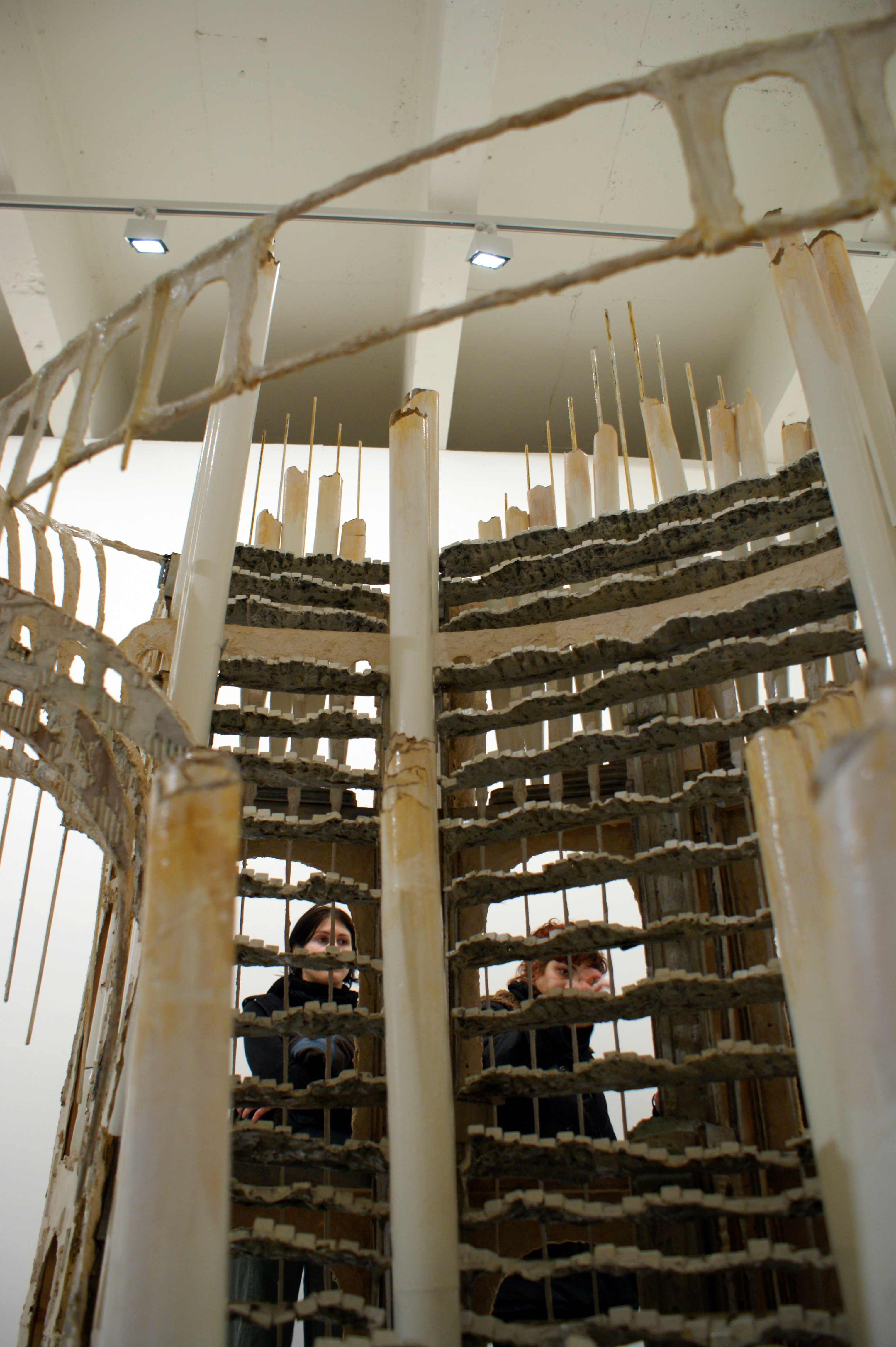 Diana Al-Hadid, All The Stops